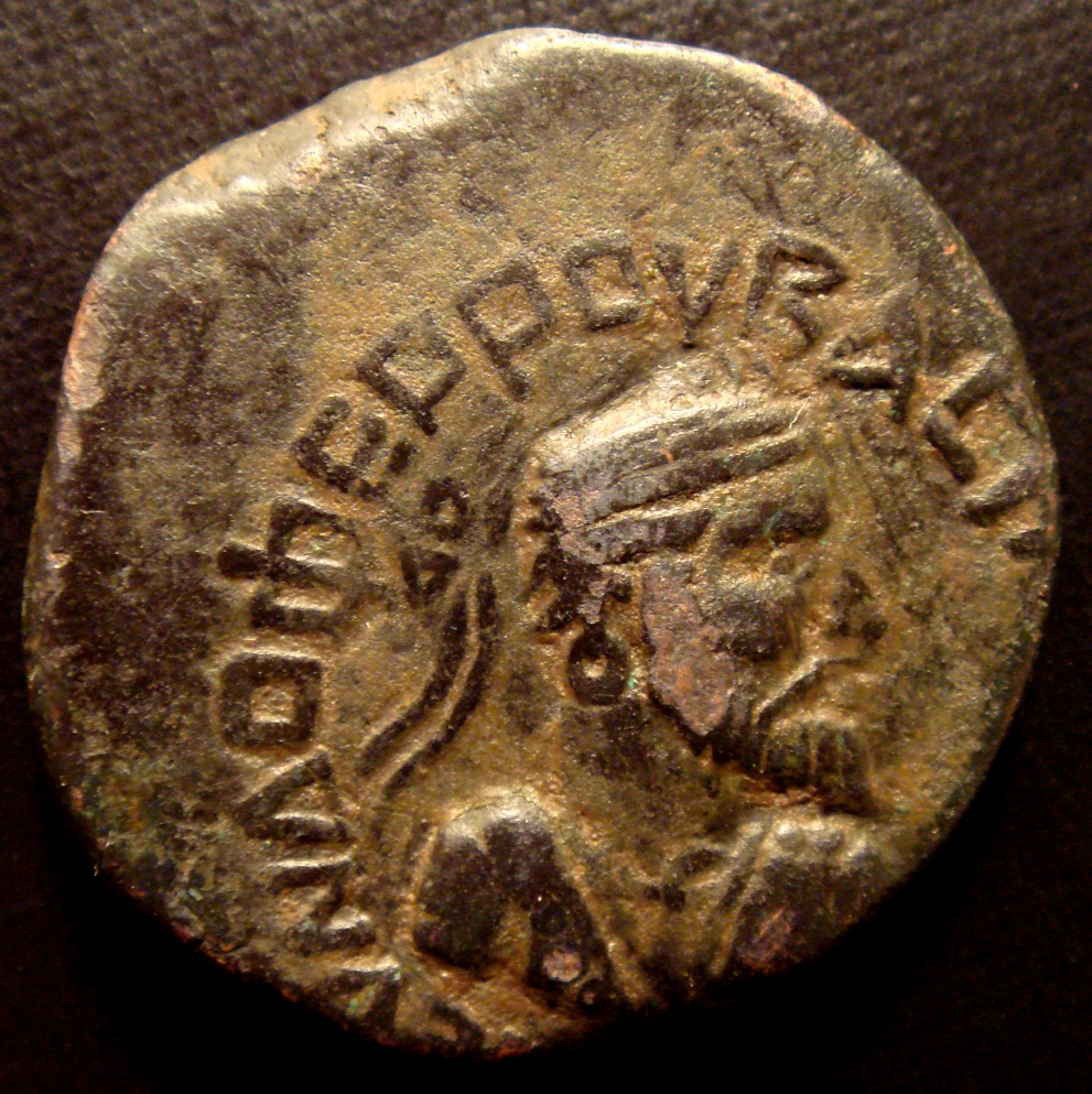 Coin of Gondophares. Personal coin. Personal photograph 2007.